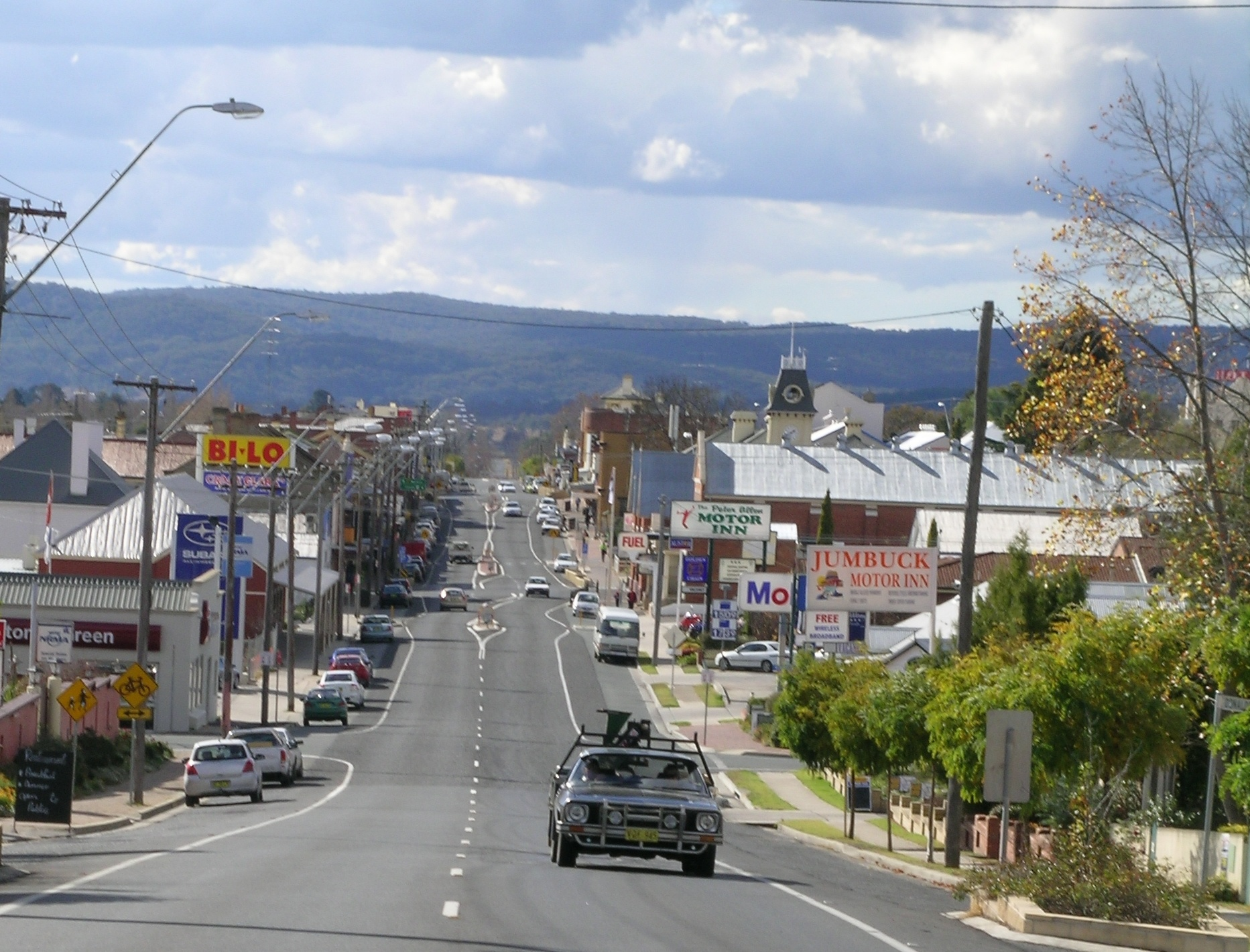 Rouse St (N England Hwy), Tenterfield, NSW